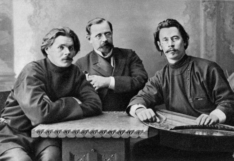 Maxim Gorky, Konstantin Piatnitsky and Stepan Skitalets